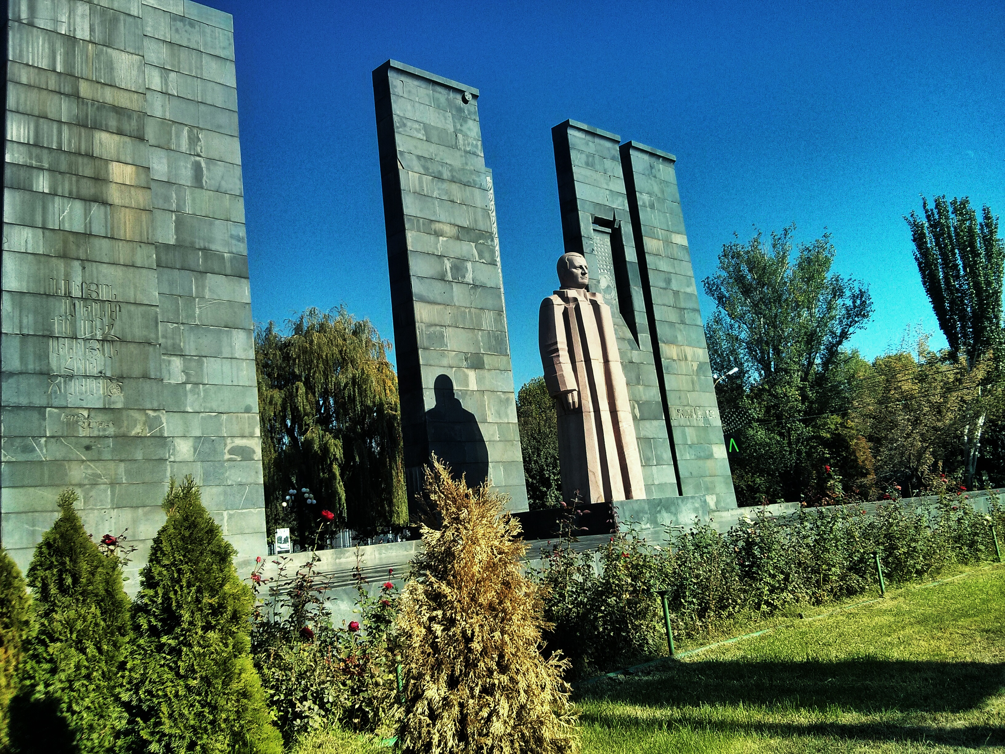 Alexandr Myasnikyan